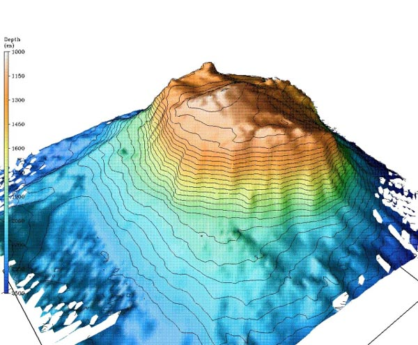 A multibeam swath bathymetric image of Bear Seamount produced on the OE sponsored Deep East mission in 2001.